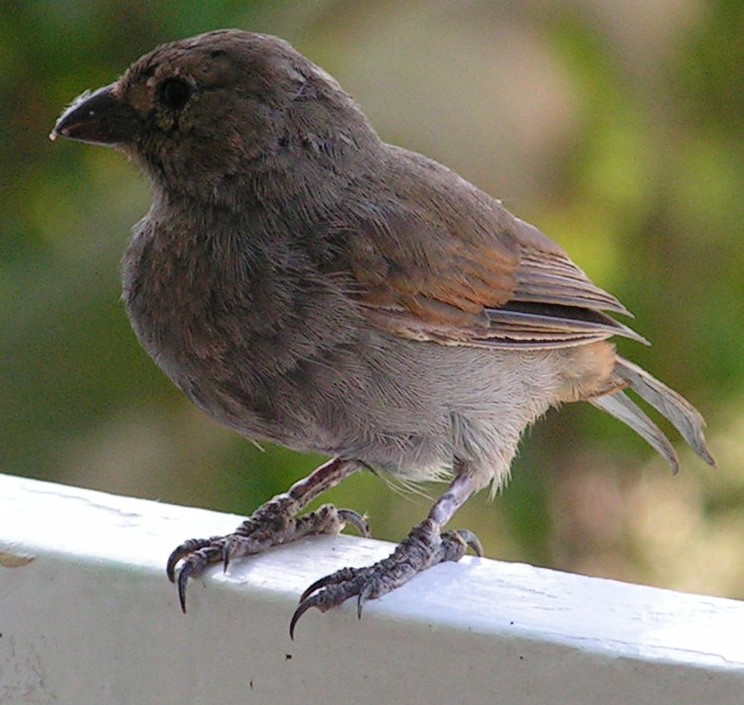 Barbados Bullfinch (Loxigilla barbadensis) photographed on Barbados